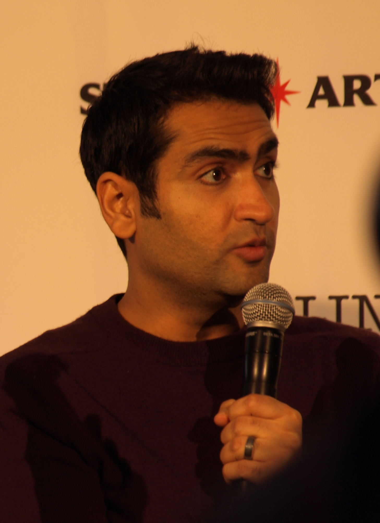 "The Big Sick" panel at Sundance 2017, Park City UT